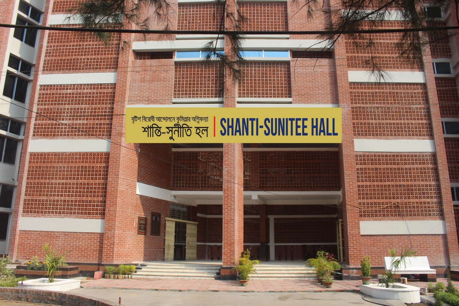 EMC Girls Hostel